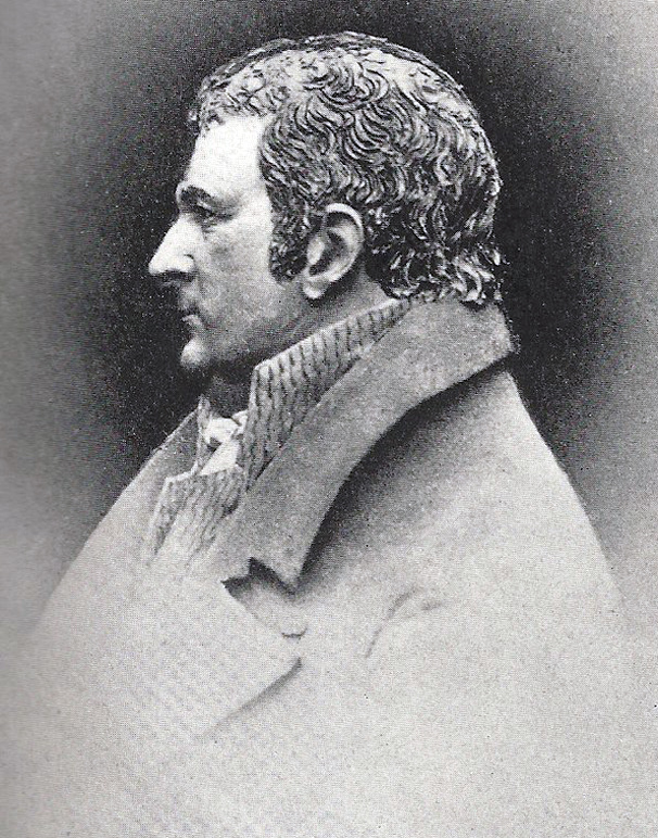 Thomas Newbold, US Representative from New Jersey